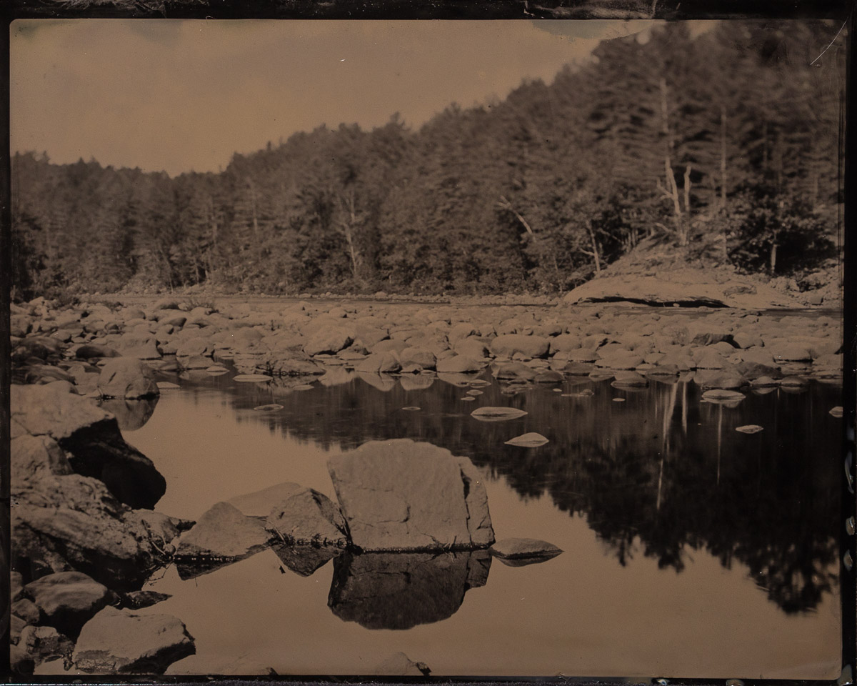 "Hudson River" in North River, NY by Murphy